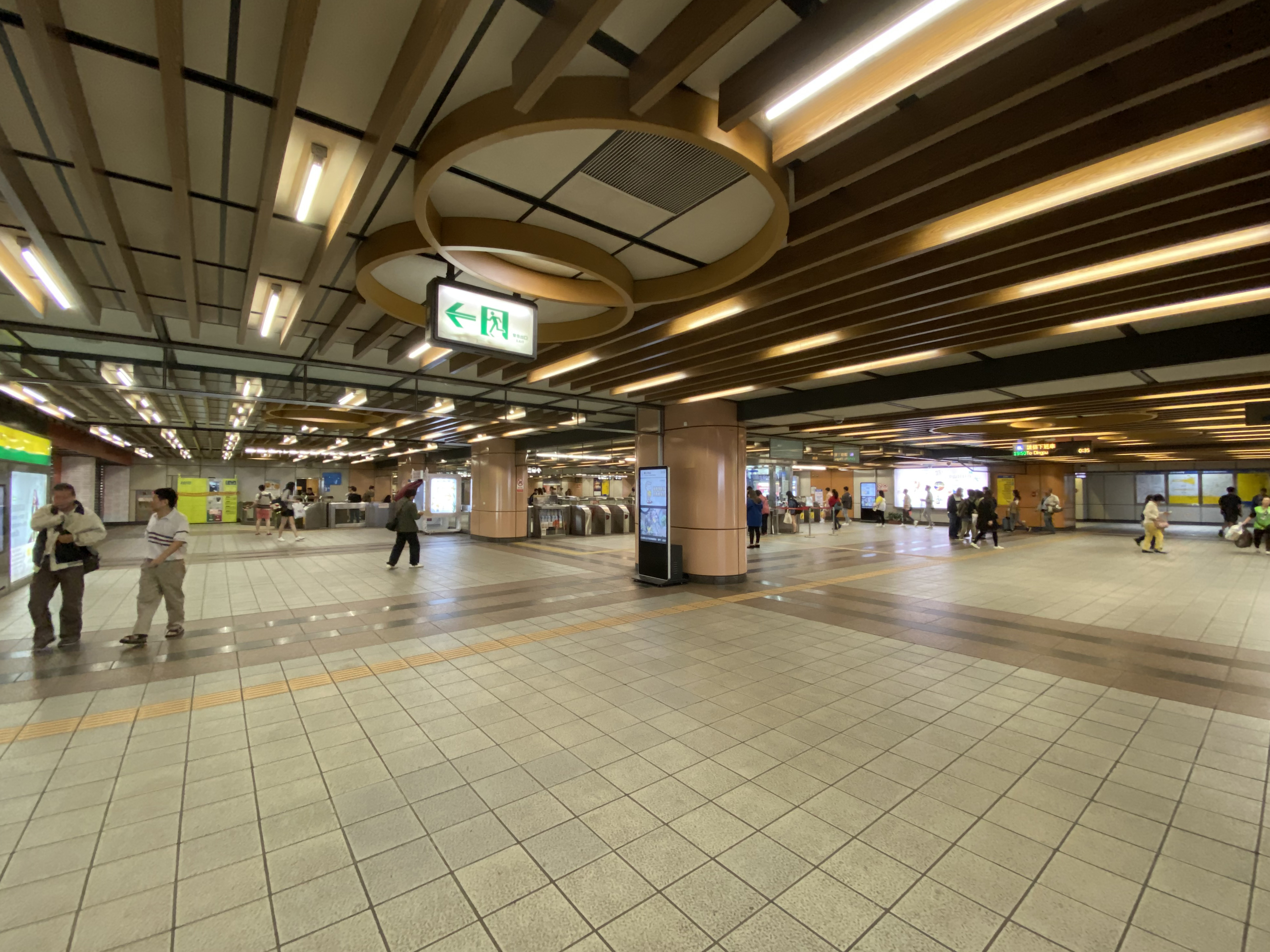 Longshan Temple Station Concourse